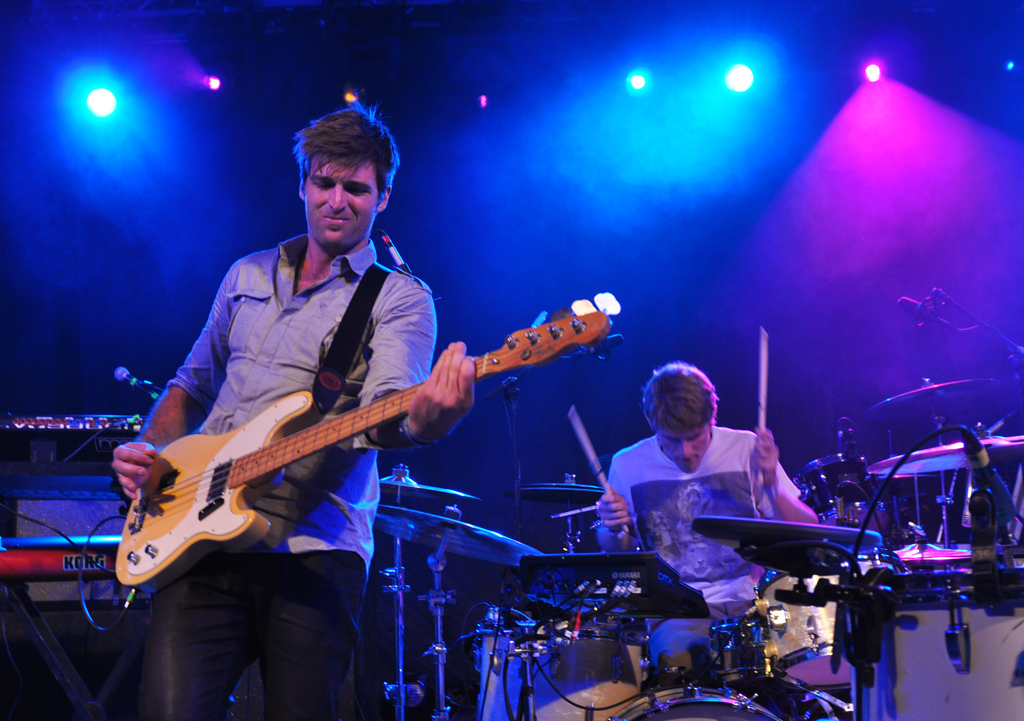 Foster the People performing at SXSW 2011 in Austin, Texas.